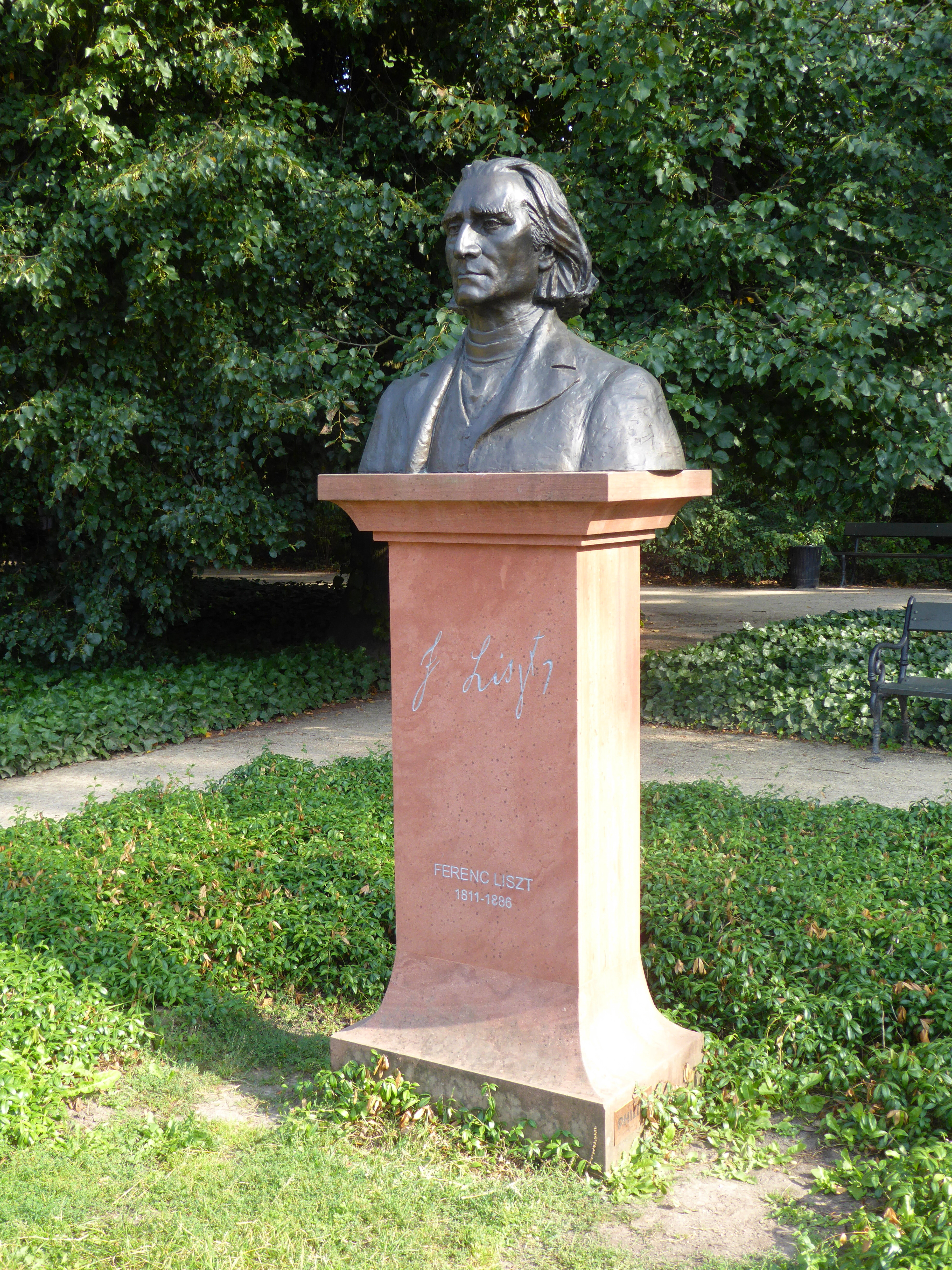 Bust of the Hungarian composer Franz Liszt in Łazienki Park, Warsaw.